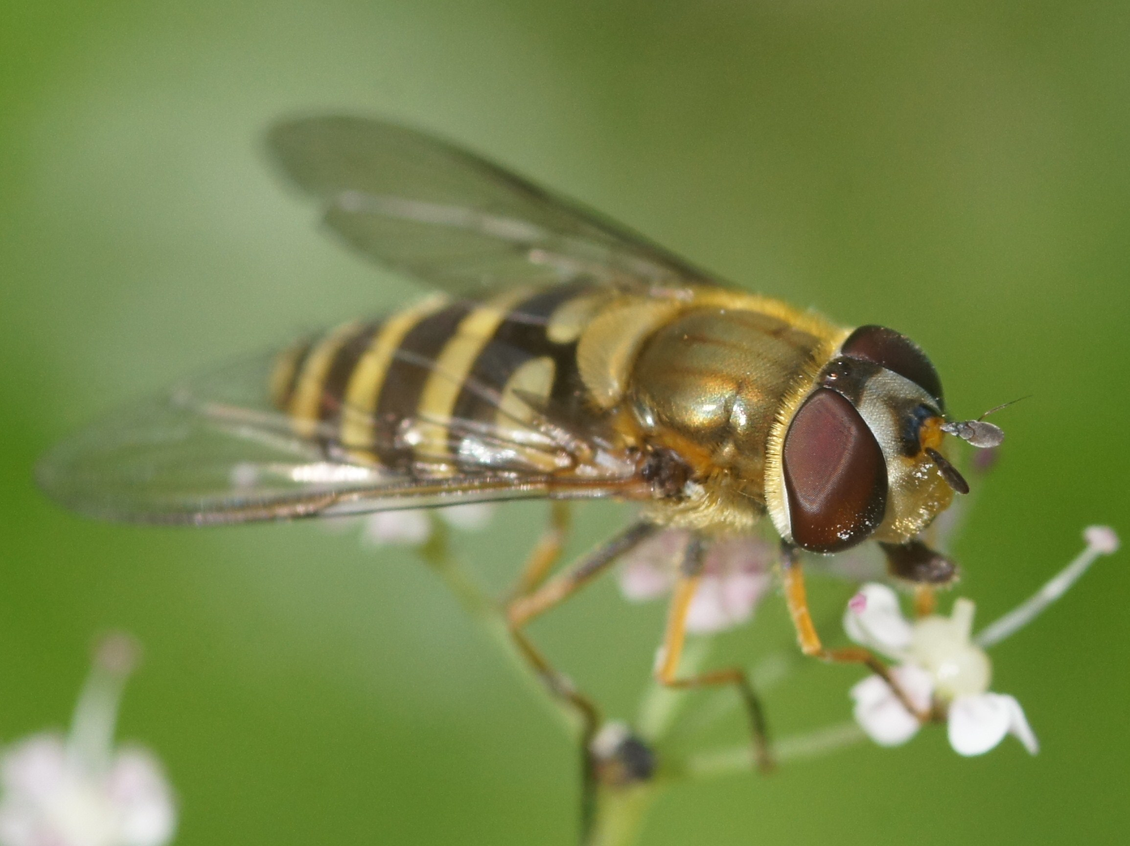 Syrphus torvus (female). Picture taken in Skåne, Sweden.